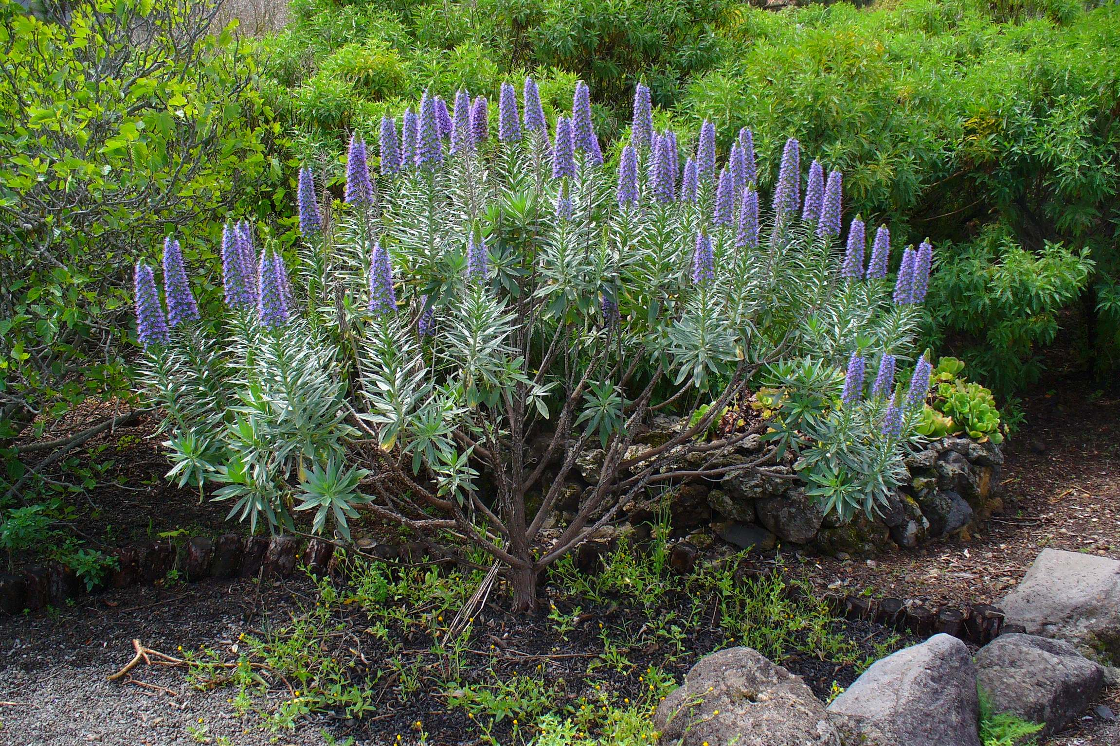 Webb's viper's bugloss; habitus; El Paso, La Palma, Canary Islands, Spain